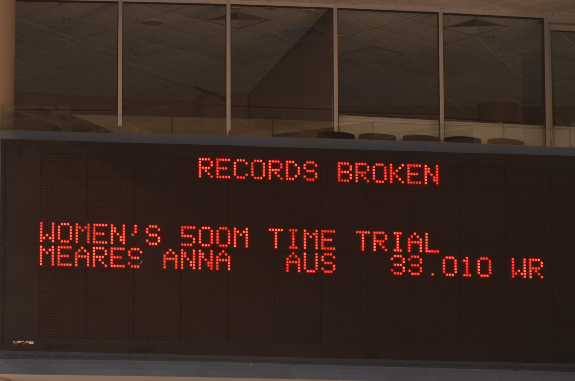 Panel with record time of Anna Meares, UCI Track Worlds 2012 in Melbourne